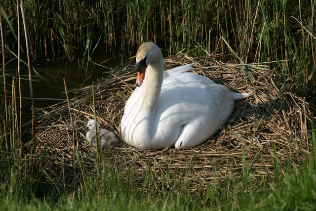 Nesting Swan and Cygnet